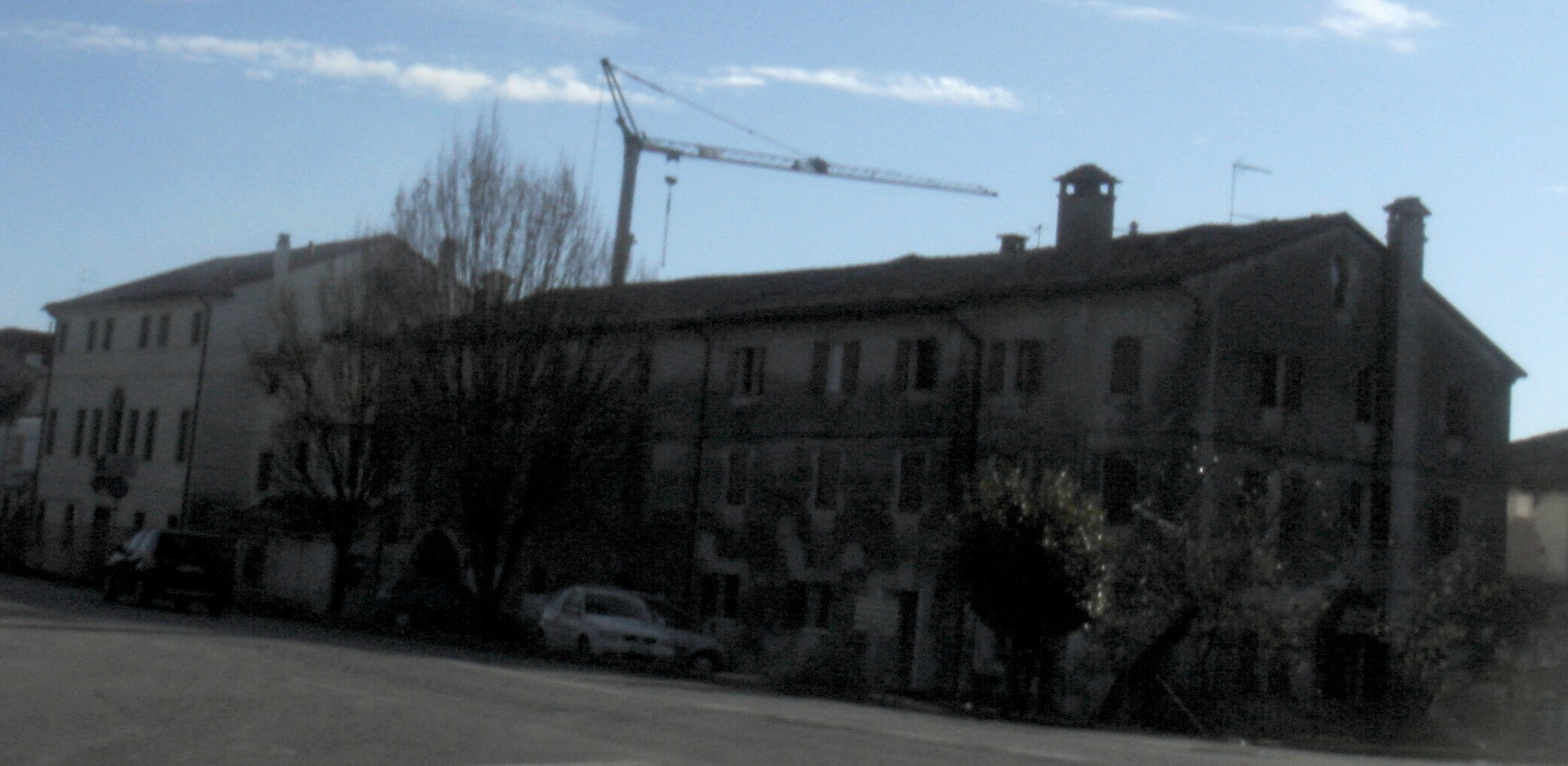 Old building in Parè (Conegliano)